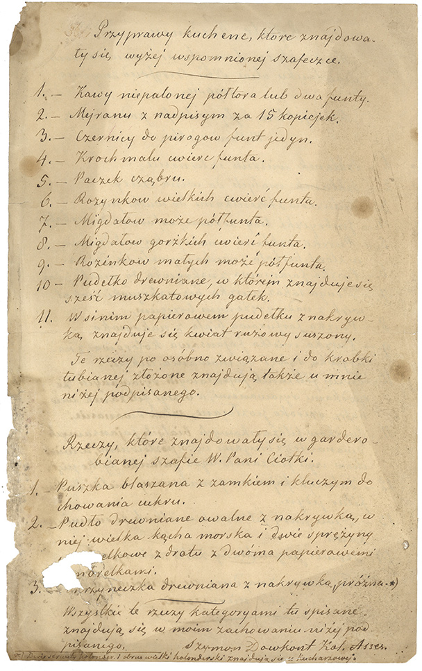 2nd page of listing of property that belonged to the deceased aunt of Petras Smuglevičius. Written by Daukantas in Polish.